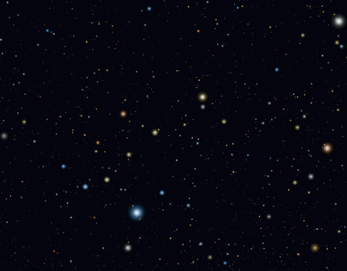 Image of Phoenix